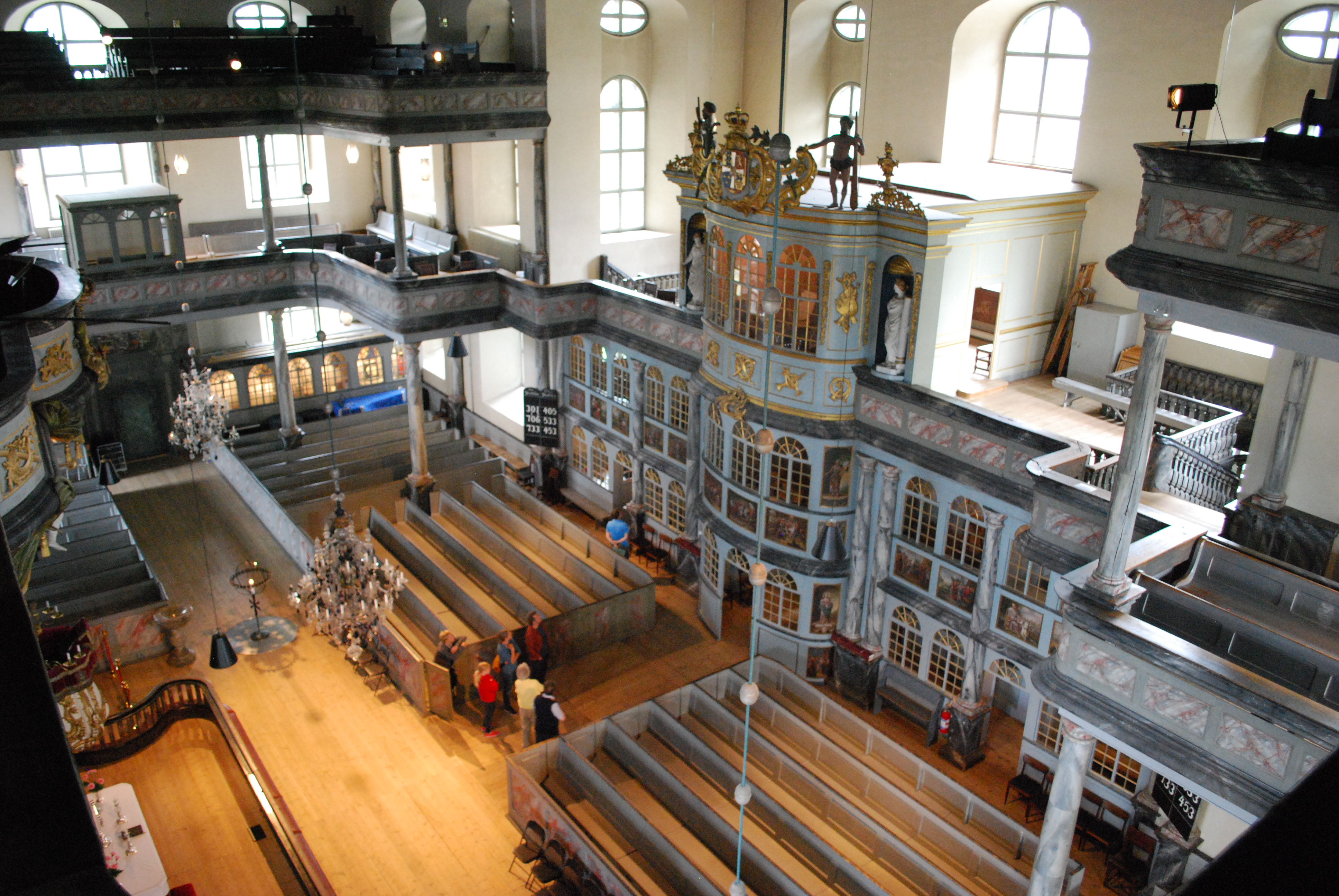 General view of the Kongsberg church interior